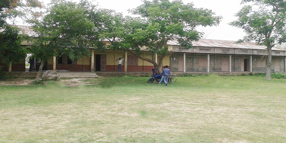 This is the front view of Hatsingimari College.